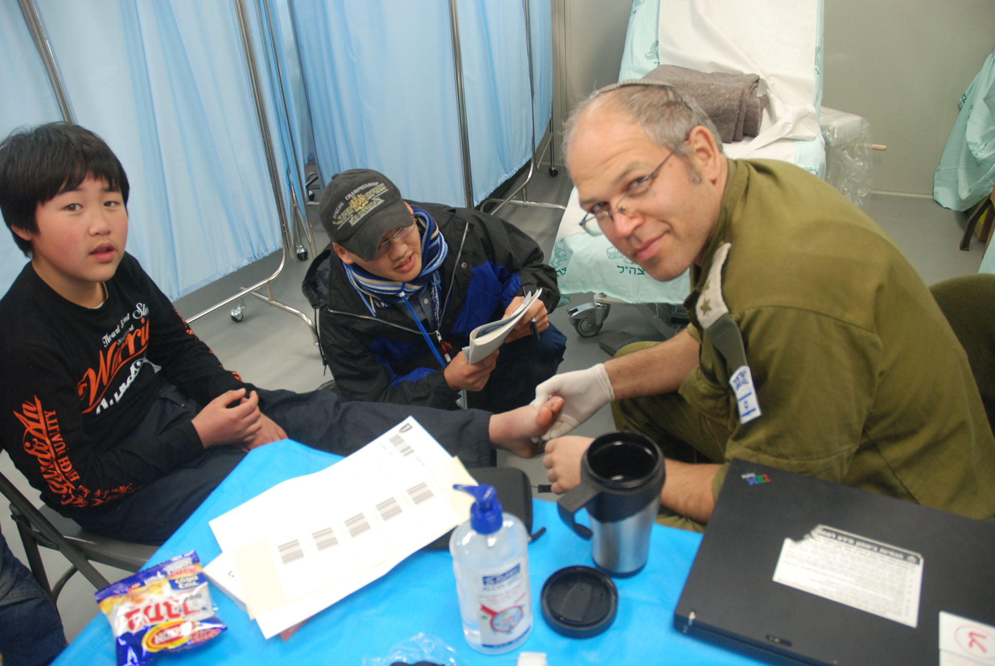 March 30, 2011. One of the local children who received initial treatment by Dr. Hami Blumberg, a orthopedist specializing in children's care from the IDF aid delegation to Japan.